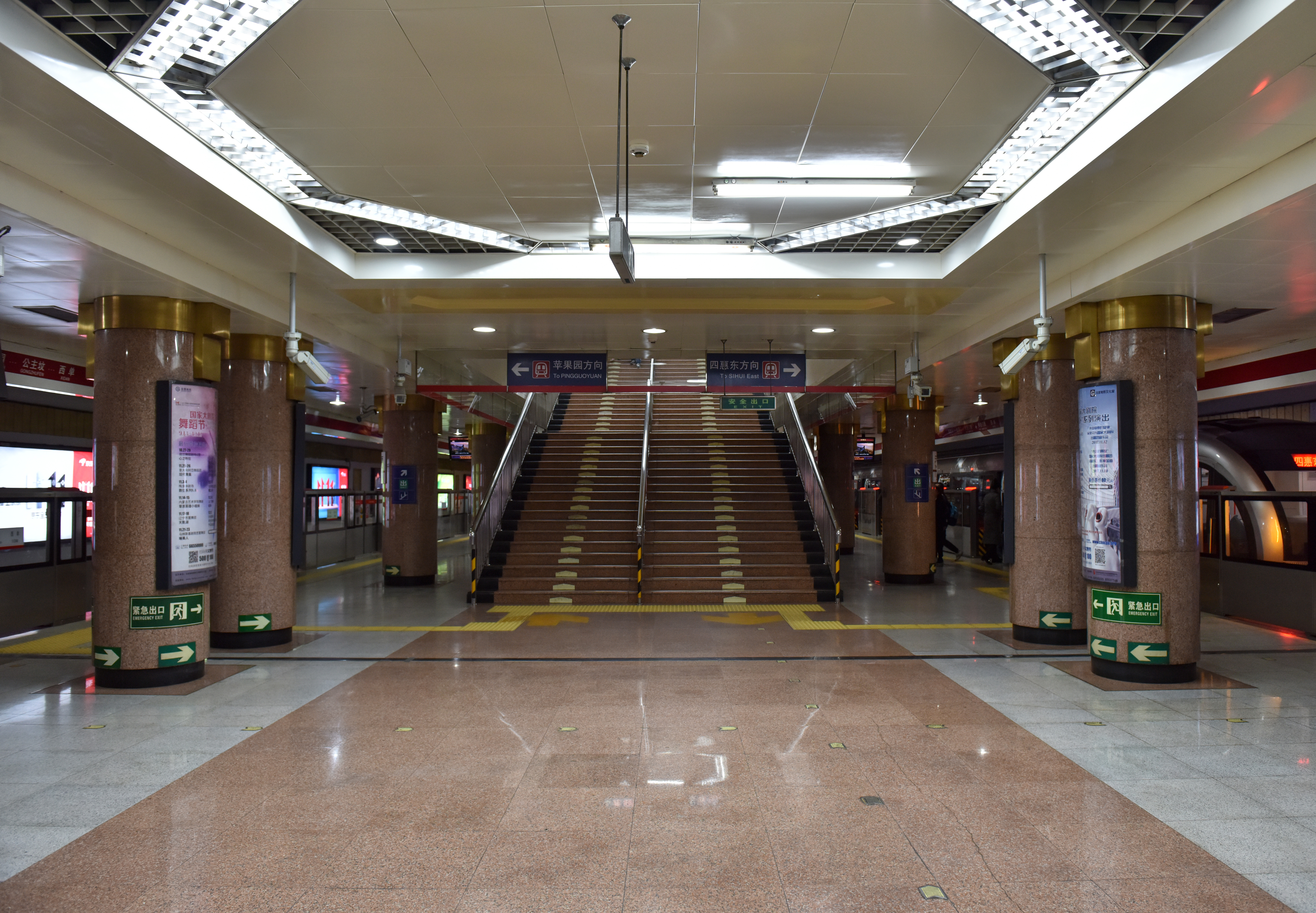 The station was built under the theme of "Oriental Charm".